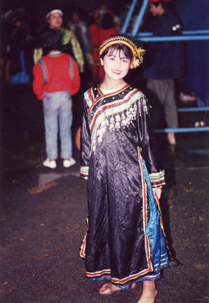 Bunun dancer just before her performance in Lona, Taiwan